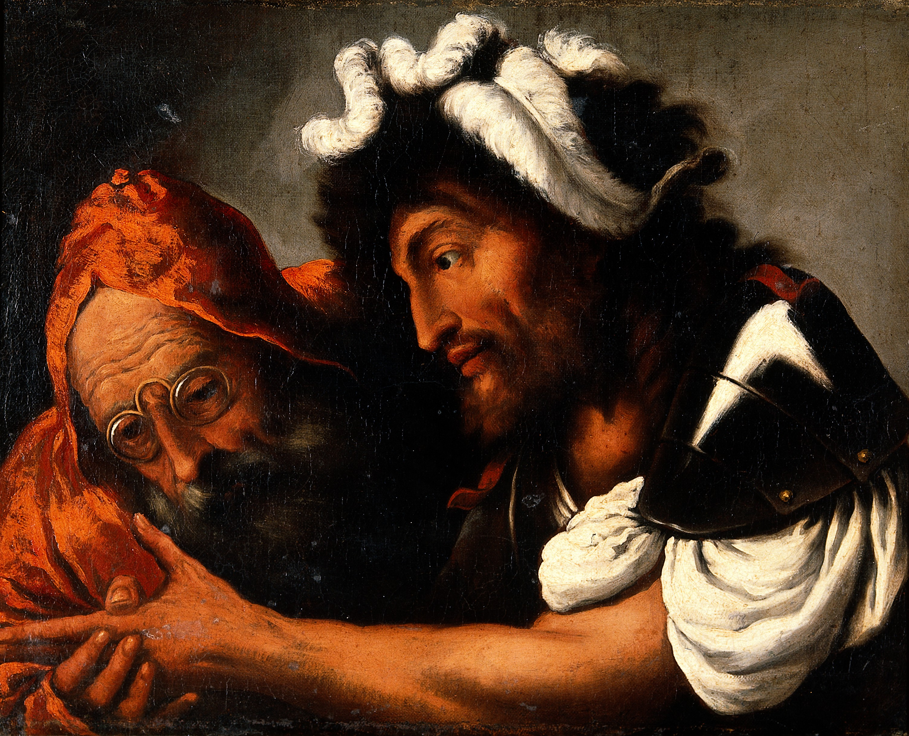 A fortune-teller reading the palm of a soldier. Oil painting by Pietro Muttoni called della Vecchia. Iconographic Collections Keywords: Pietro Muttoni